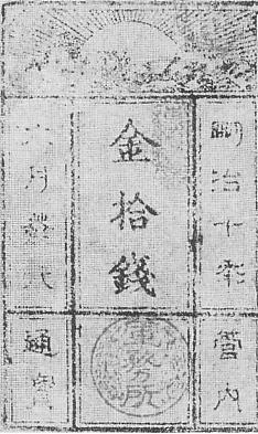 Saigo-Satsu(Satsuma forces' military currency)